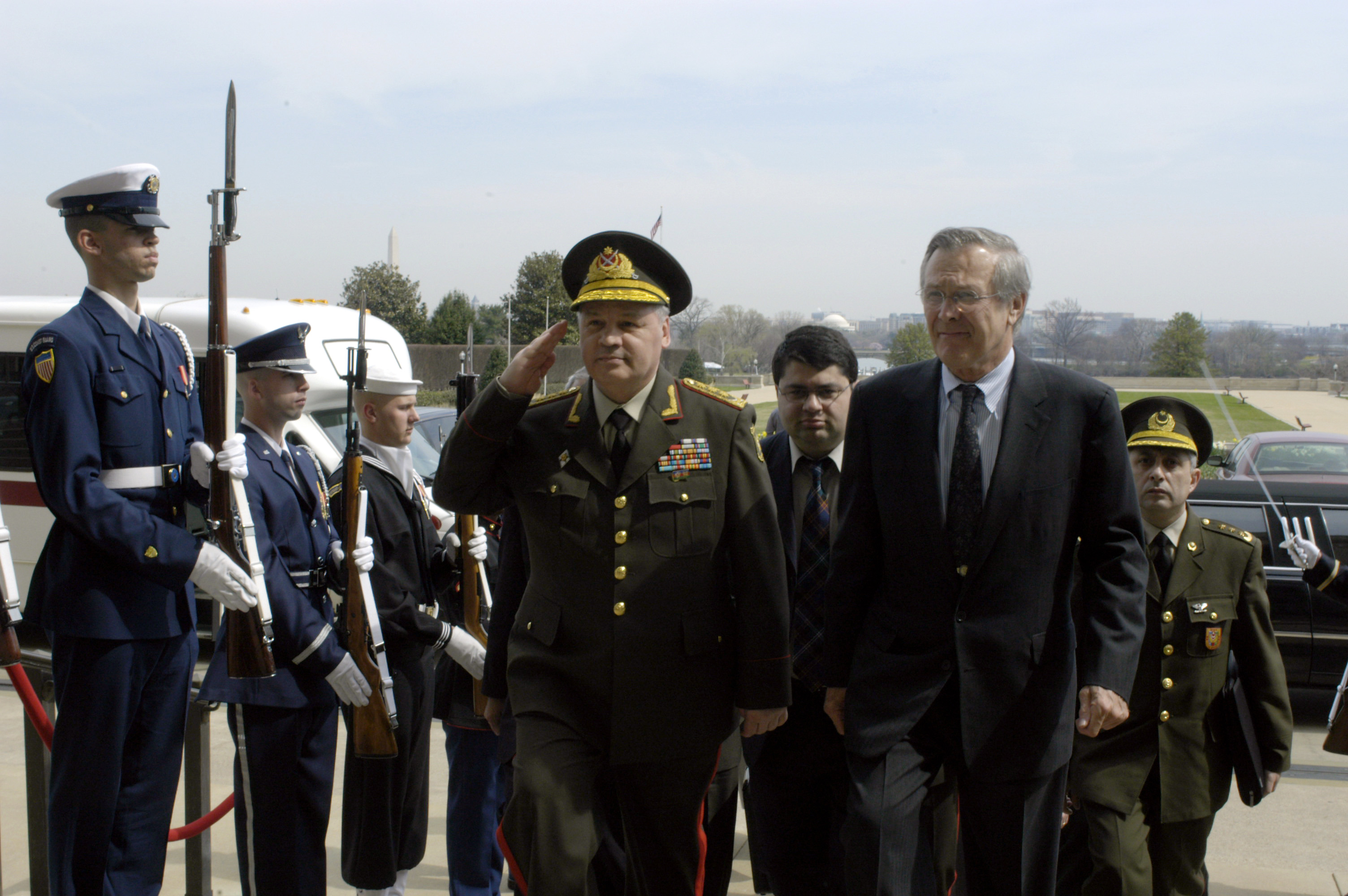 Minister of Defense of Azerbaijan Safar Abiyev is escorted through an honor cordon and into the Pentagon by Secretary of Defense Donald H. Rumsfeld on March 26, 2004. The two leaders will meet to discuss defense issues of mutual interest. DoD photo by Helene C. Stikkel. (Released).